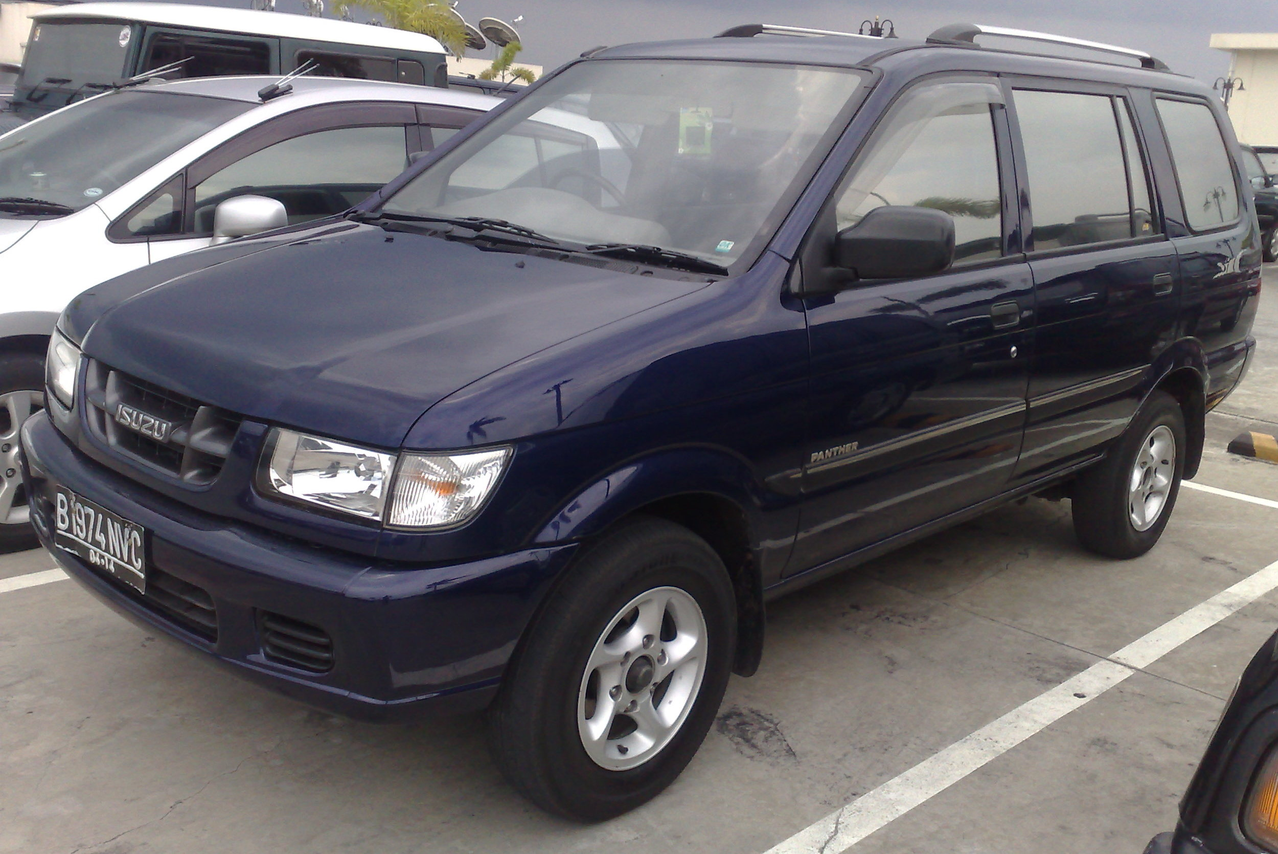 2000-2004 Isuzu Panther photographed in Jakarta, Indonesia.